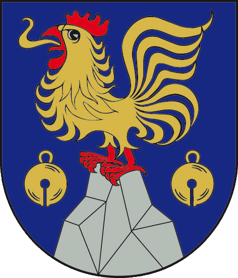 Coat of arms of the Town Hellenhahn-Schellenberg